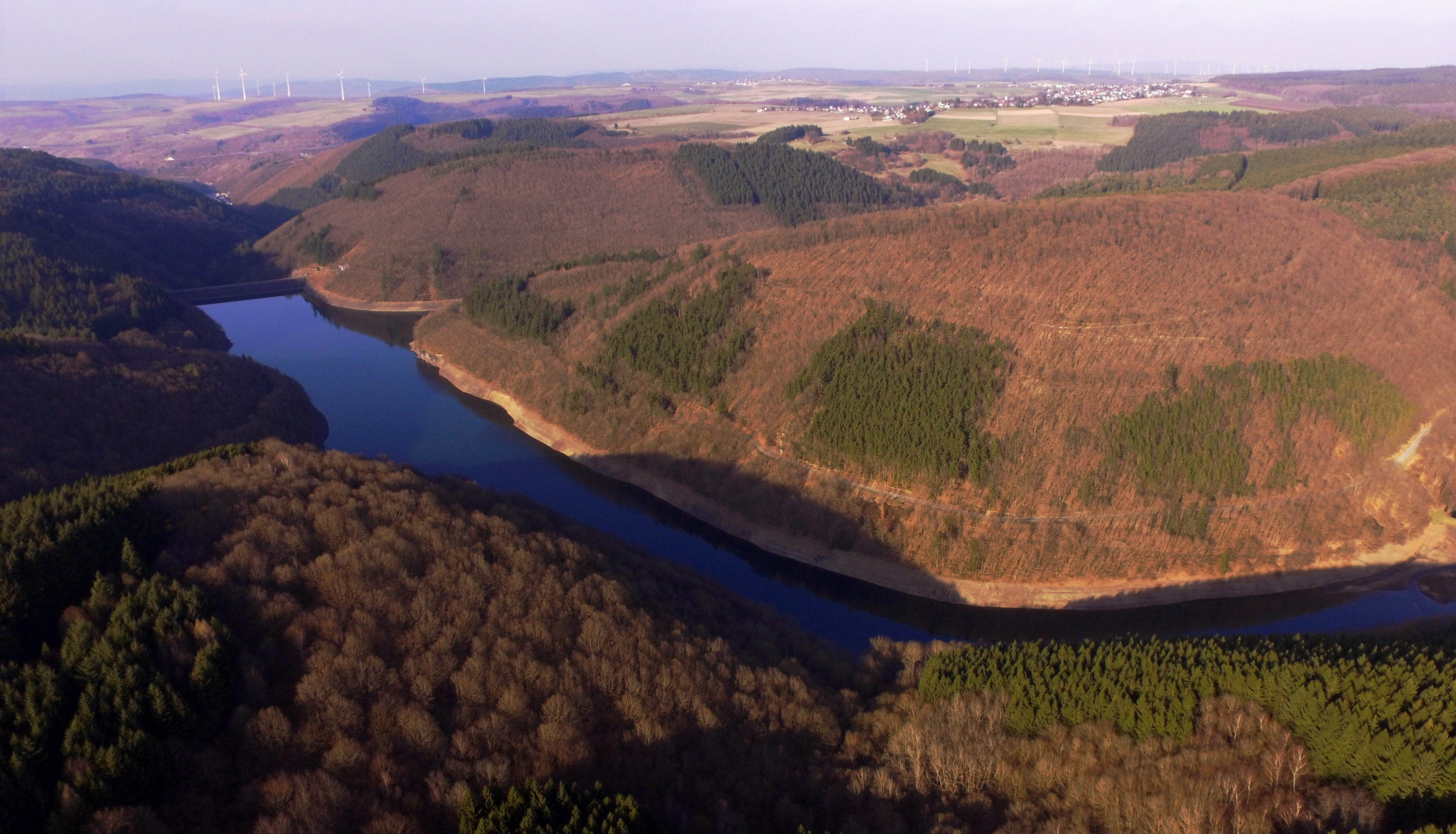 Riveristalsperre bei Trier vom Talsperrenblick bei Bonerath. Westlicher Arm (Hauptarm) des Stausees.